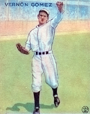 Lefty Gomez, pictured on a card printed by the Goudey Gum Company